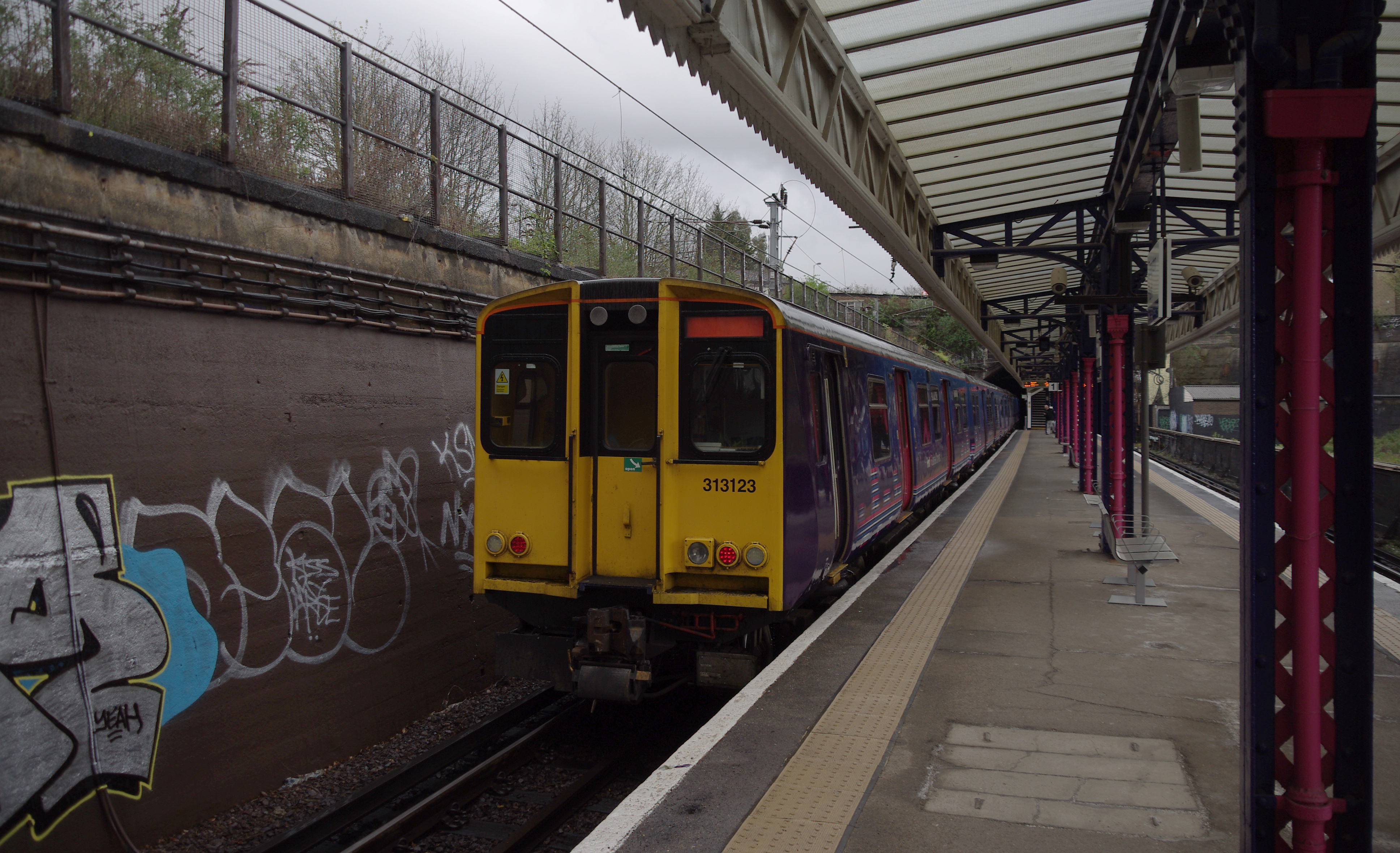 First Capital Connect Class 313 EMU 313123 departs Drayton Park with a service to Moorgate.